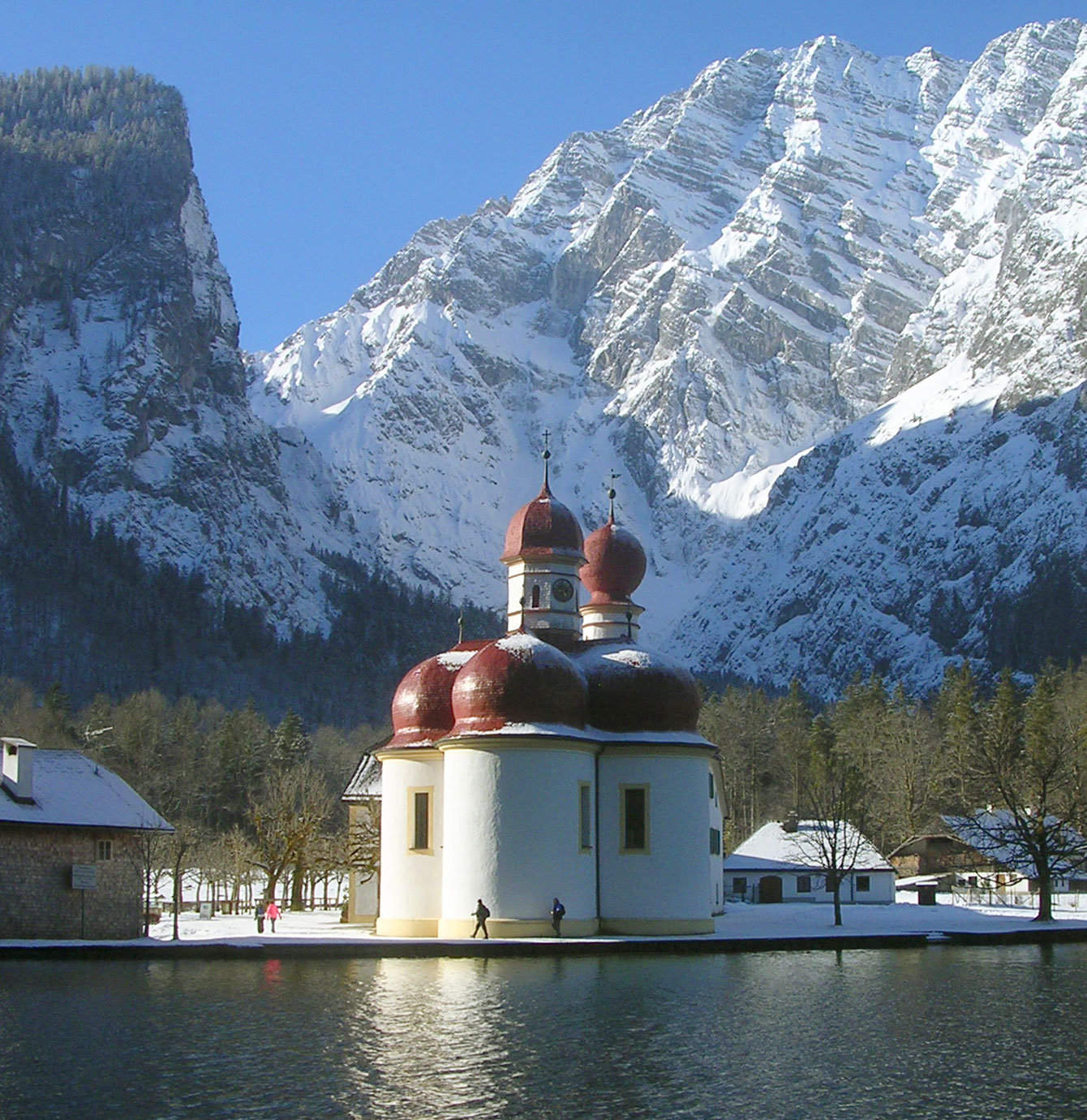 Baroque church Sankt Bartholomä (1697) next to the Königssee, Bavaria, Germany.